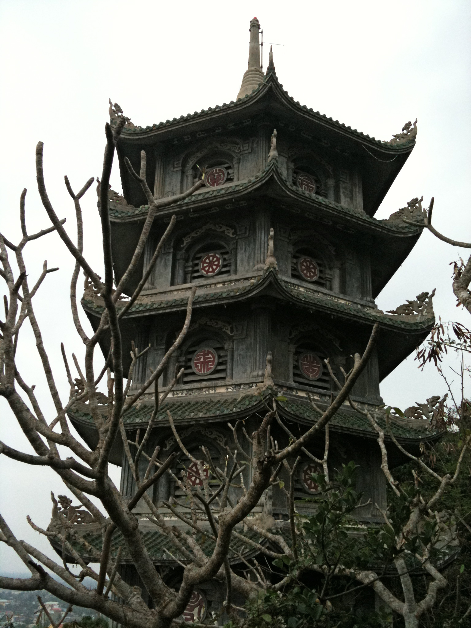 Xa Loi Tower, near Linh Ung Pagoda in the Marble Mountains, Da Nang, Vietnam.